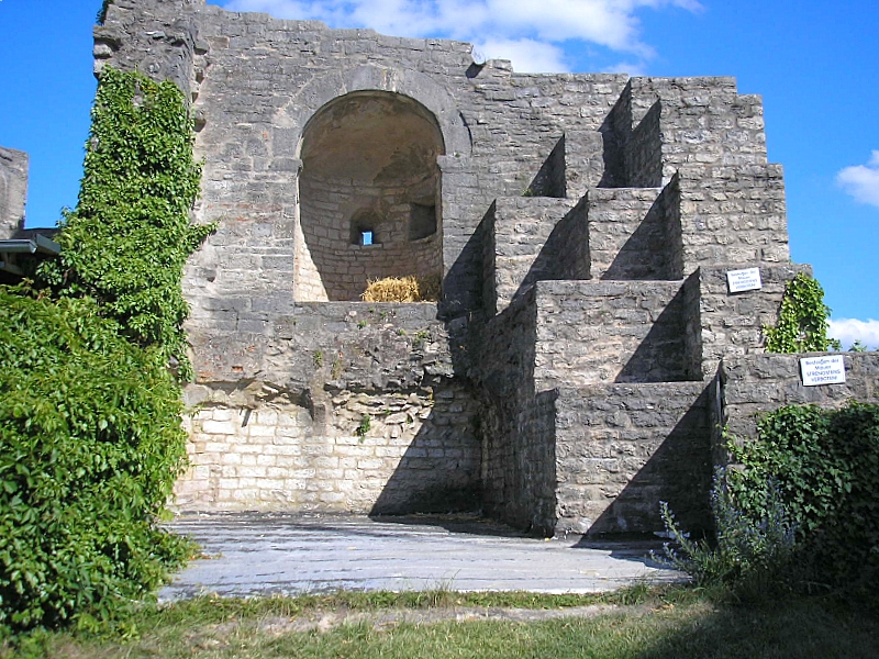 Pappenheim castle (Landkreis Weißenburg-Gunzenhausen, Middle Franconia, Germany). The ruin of the romanesque chapel